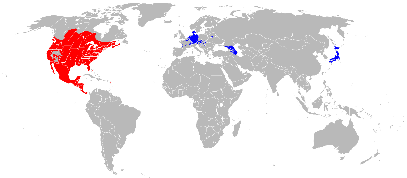 This map shows the worldwide range of the raccoon, the native range is red, the introduced range is blue. The distribution in North America is based on the map on page 80 in the book “Raccoons: A Natural History” by Samuel I. Zeveloff. The distribution in Europe is based on the map in the article “Procyon lotor” by Marten Winter (DAISIE). The distribution in Japan is based on the map in the article “Present Status of Invasive Alien Raccoon and its Impact in Japan” by Tohru Ikeda et al. The distribution in the Caucasus region is based on the map on page 12 in the book “Der Waschbär” (“The Raccoon”) by Ulf Hohmann. Edit on 6 December 2008: Nova Scotia is once again red according to [1]. A population of raccoons has been found in Italy near Bergamo according to [2].